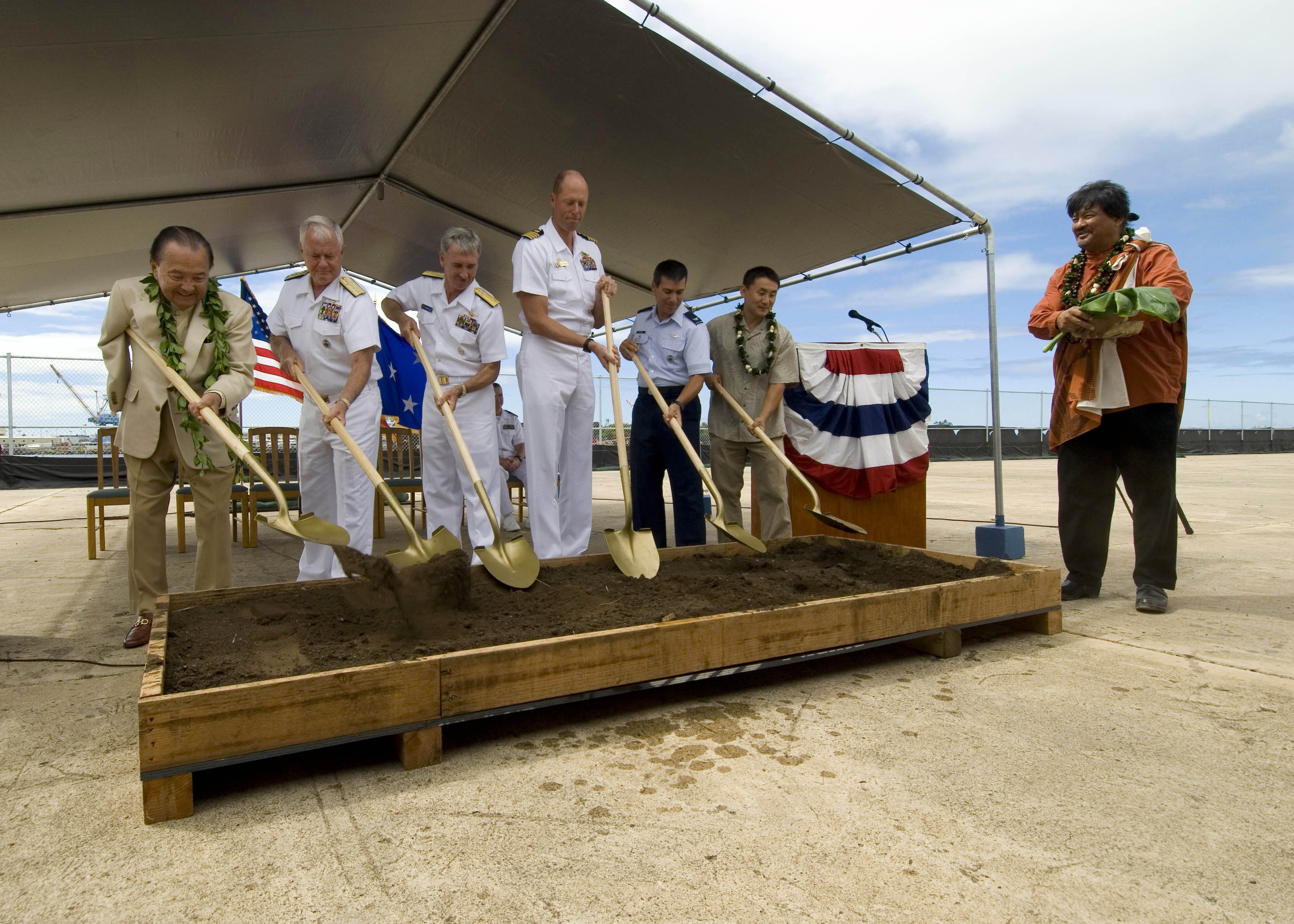 FORD ISLAND, Hawaii (Aug. 29, 2007) - Representatives of the U.S. Senate, U.S. Pacific Command (PACOM), Navy Region Hawaii and Nan, Inc., dba Ocean House Builders break ground for the Pacific Warfighting Center. The $20-million facility, expected to be completed July 2009, is being built to enhance joint and multilateral operational missions and training by providing and environment for commanders and their staffs within the PACOM region to train for scenarios that can either be live, virtual or networked. U.S. Navy photo by Mass Communication Specialist 3rd Class Paul D. Honnick (RELEASED)